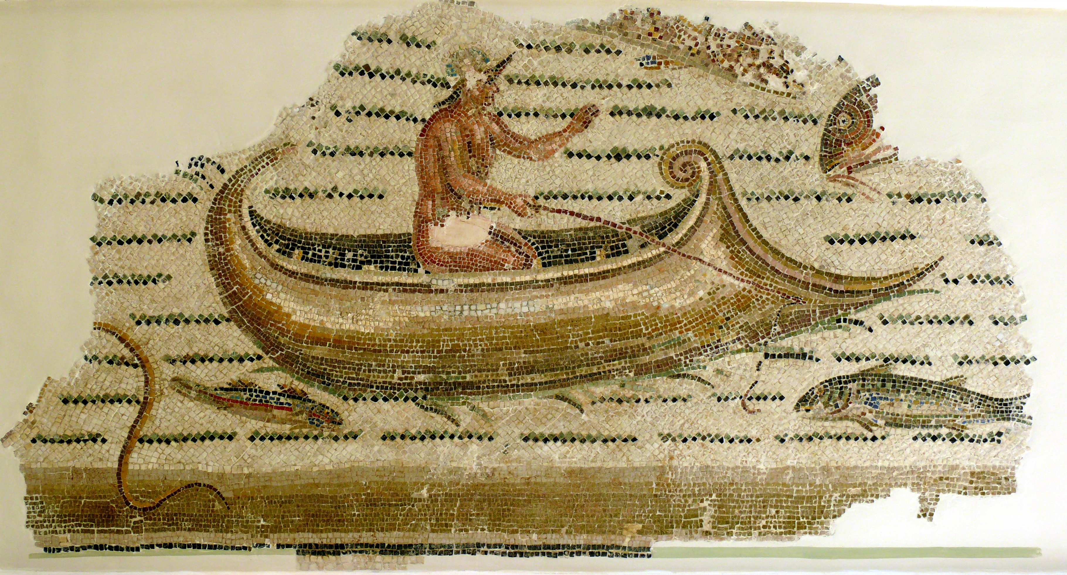 Fragment of a mosaic depicting a naked fisherman, with a hat, line fishing on a two spar boat. Middle of the third century. Sousse Musée archéologique de Sousse